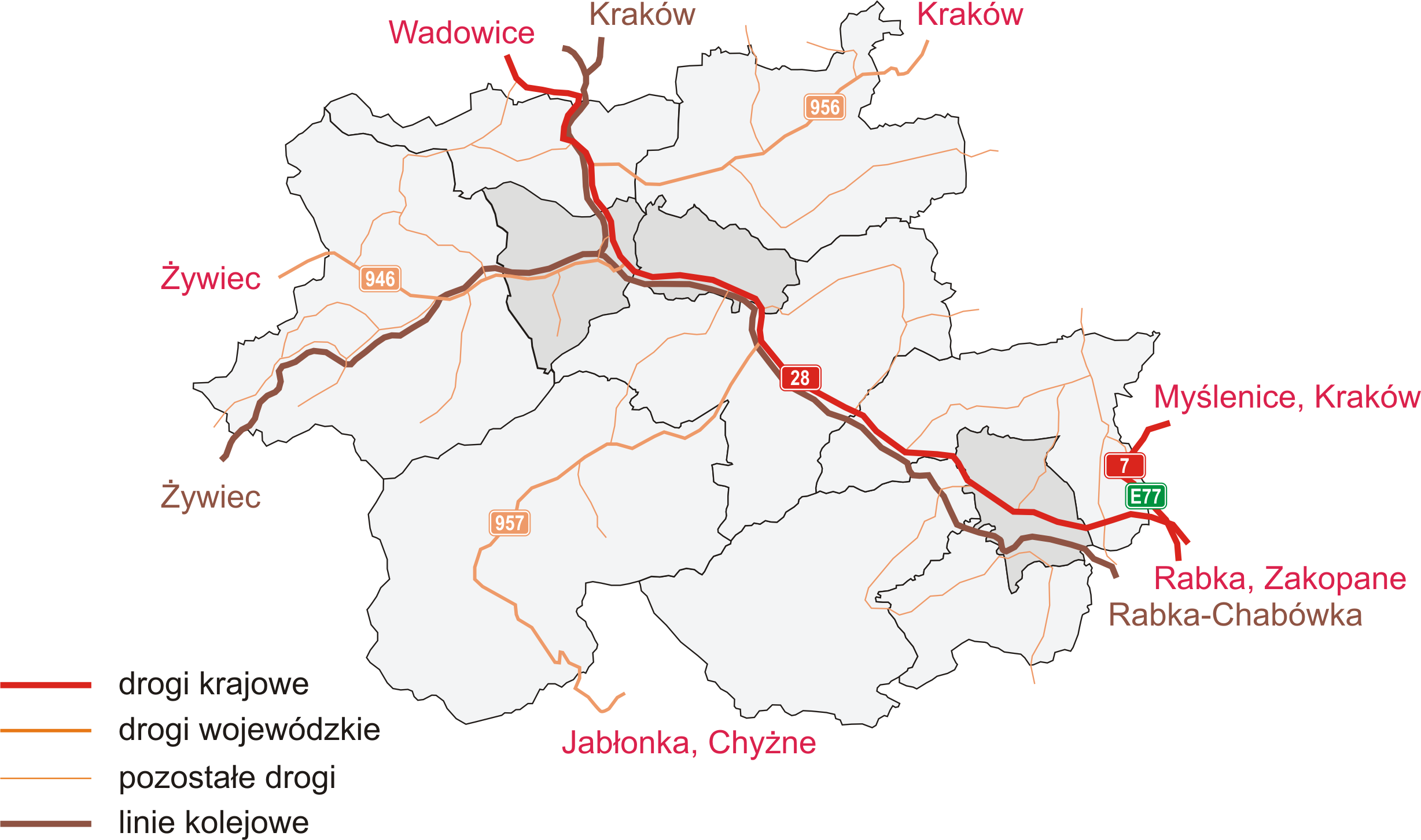 Roads and railways in Sucha Beskidzka County